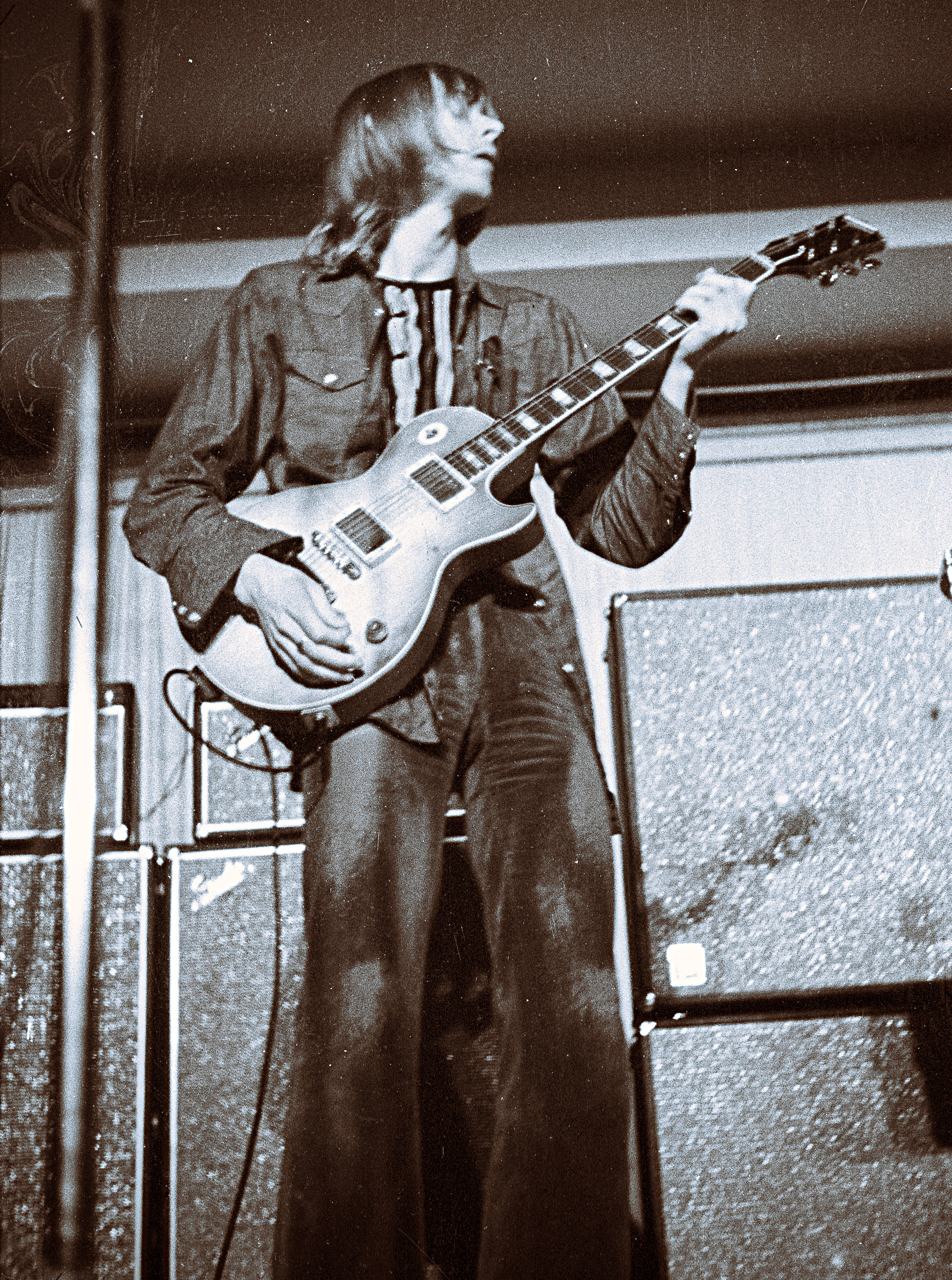 Danny Kirwan, Fleetwood Mac, March 18, 1970 Niedersachsenhalle, Hannover, Germany The Touring Band: Mick Fleetwood - Percussion, Peter Green - Lead Vocals/Guitar/Harmonica (left band in May), John McVie - Bass Guitar, Jeremy Spencer - Vocals/Guitar, Danny Kirwan - Vocals/Guitar